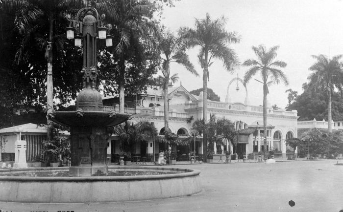 The Nienhuys fountain and Hotel De Boer